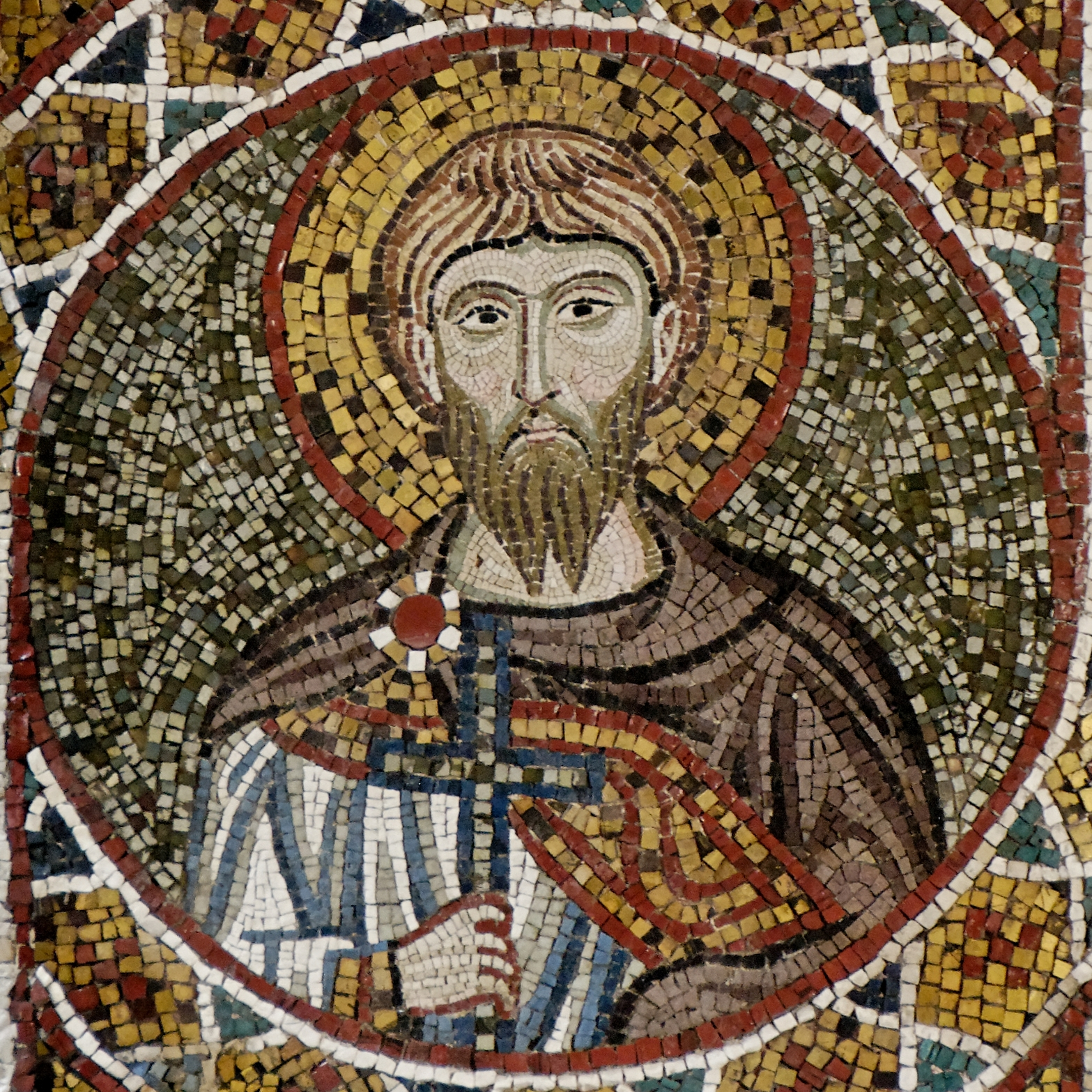 St. Theodore Stratelates, 12th-century mosaic. Pendant on the southern arch (eastern side) of the crossing of the transept, La Martorana, also known as Santa Maria dell'Ammiraglio in Palermo, Sicily.